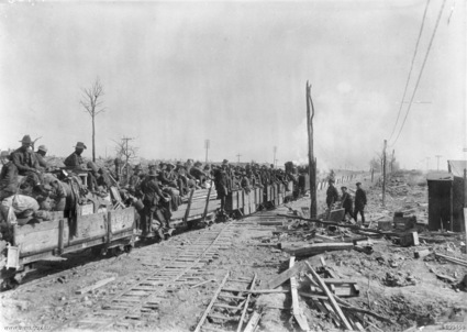 No. 6 and No. 8 Platoons, B Company, 4th Australian Pioneers shifting camp from the Butte de Warlencourt to Fremicourt by light railway. This photograph was taken at a small siding about a mile from the Butte towards Bapaume. The timber on the third truck and the two rear trucks was salvaged from a German Dump at the Butte de Walencourt.